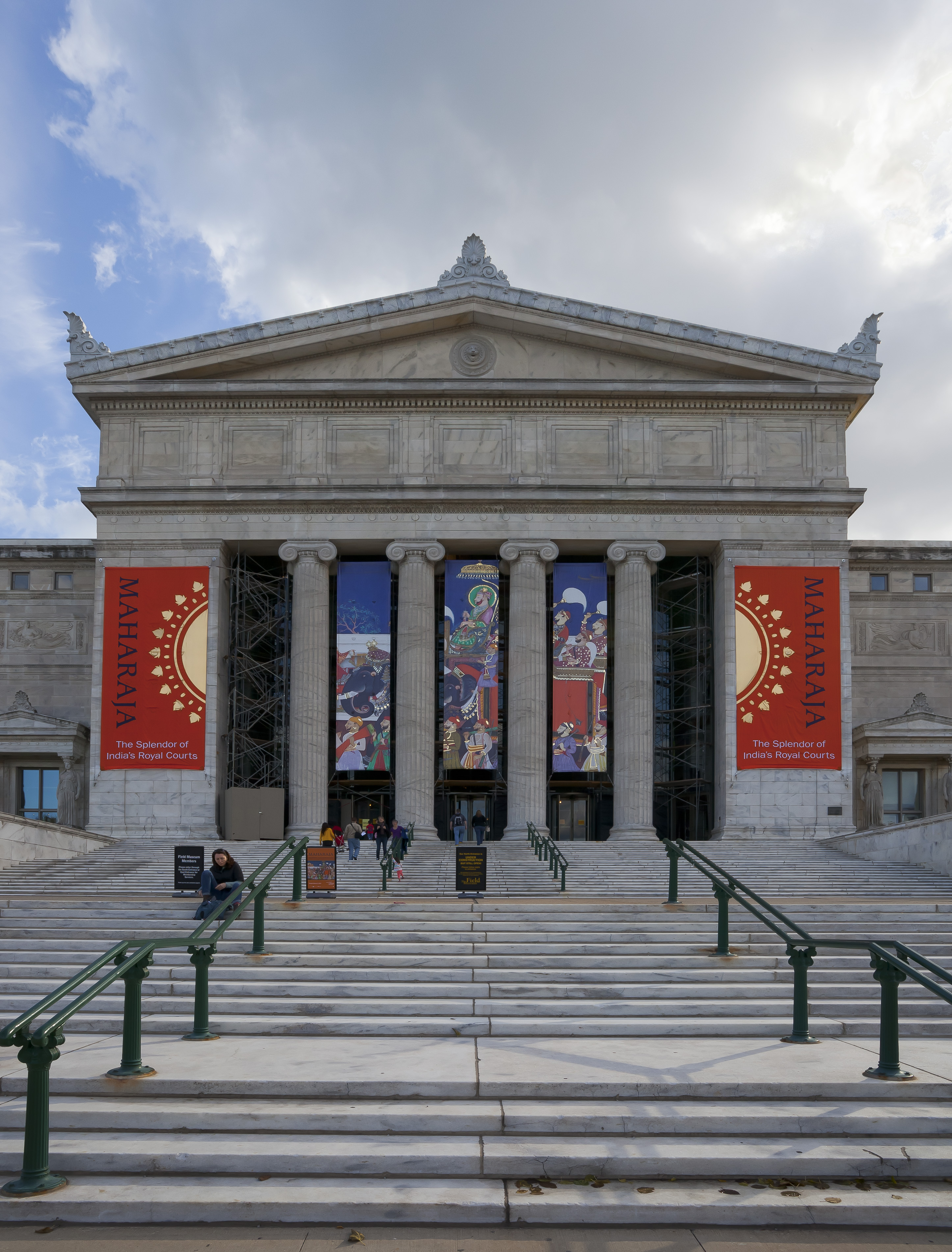 Field Museum, Chicago, Illinois, USA